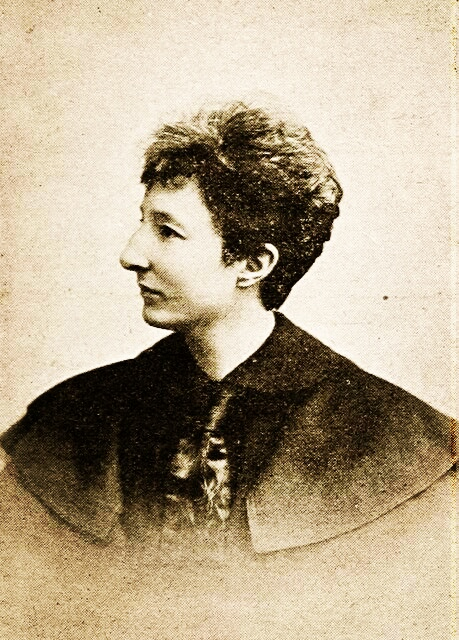 Anita Augspurg (1857-1943), German lawyer and women rights activist